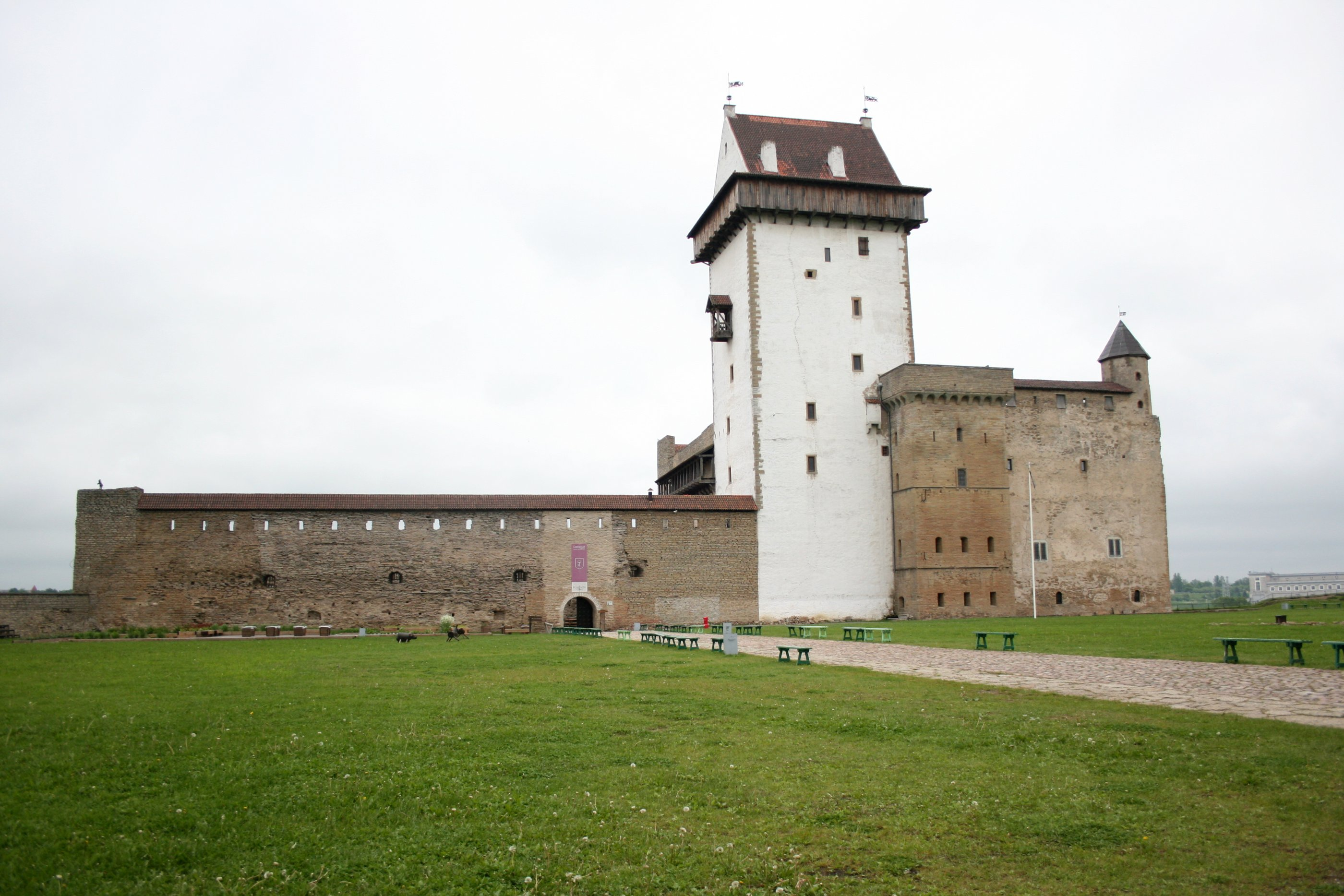 Hermann Castle is located on the Estonian-Russian border. It sits across from the Ivangorod Fortress in Russia. The castle was originally built by Danes, first in wood, and then in stone. The castle changed hands several times over the the centuries. It belonged to the Danes, then Russians, the Swedes, and then the Russians once more before being turned over to Estonia. The castle suffered bombing damage during the Second World War and was thoroughly restored soon after. The castle now houses the Narva Museum.